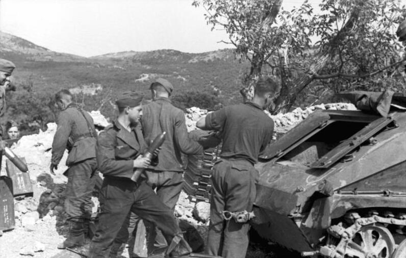 Information added by Wikimedia users.